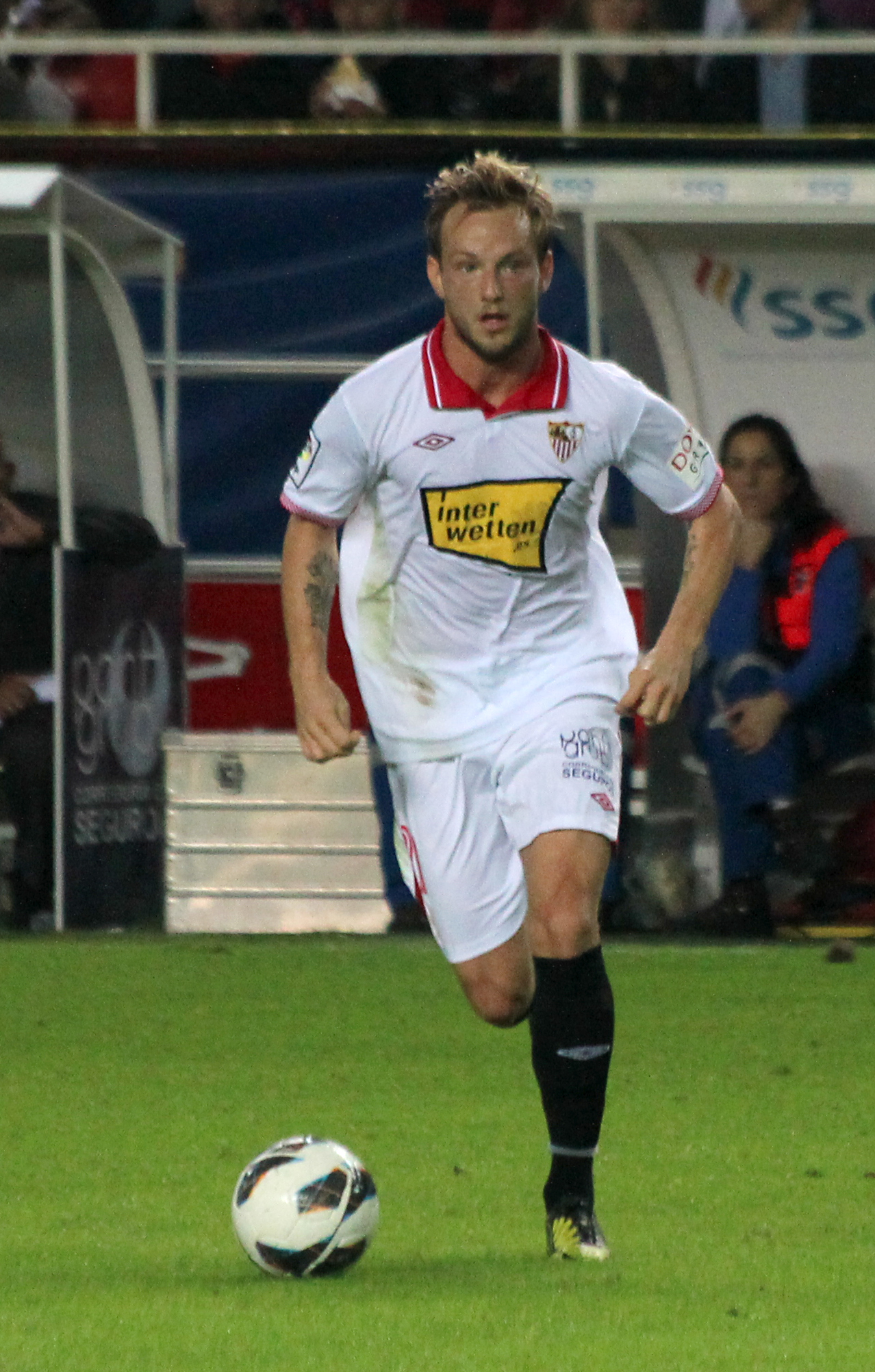 Croatian footballer who plays for Sevilla FC and the Croatian national team.